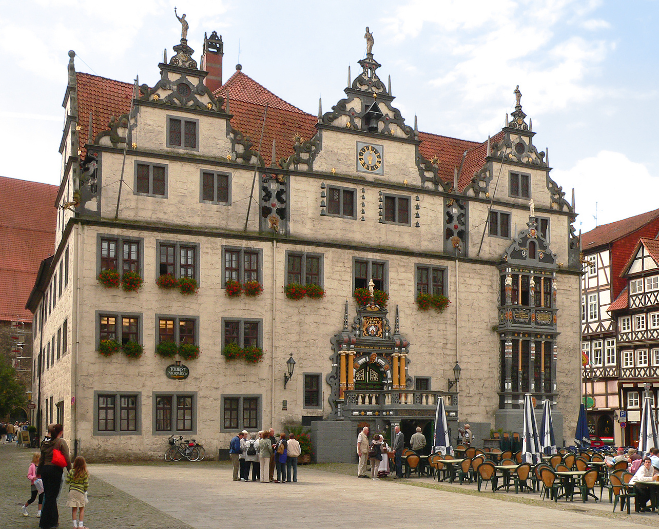 City Hall of Hann. Münden, Lower Saxony, Germany